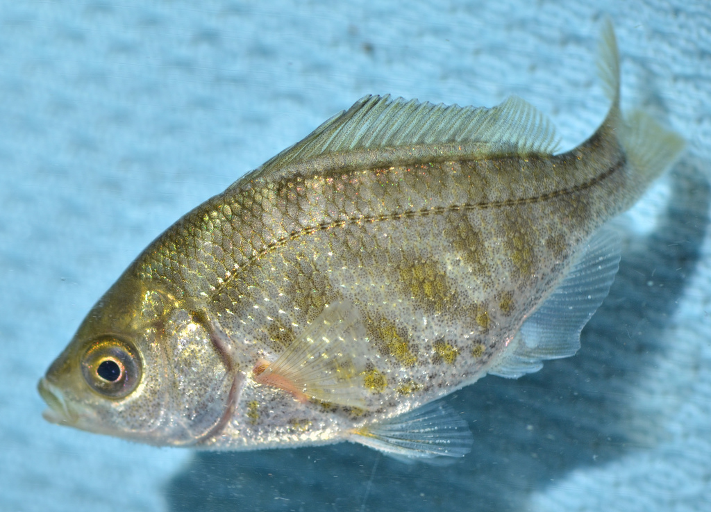 Juvenile Russian River tule perch photographed in Sonoma County, CA.